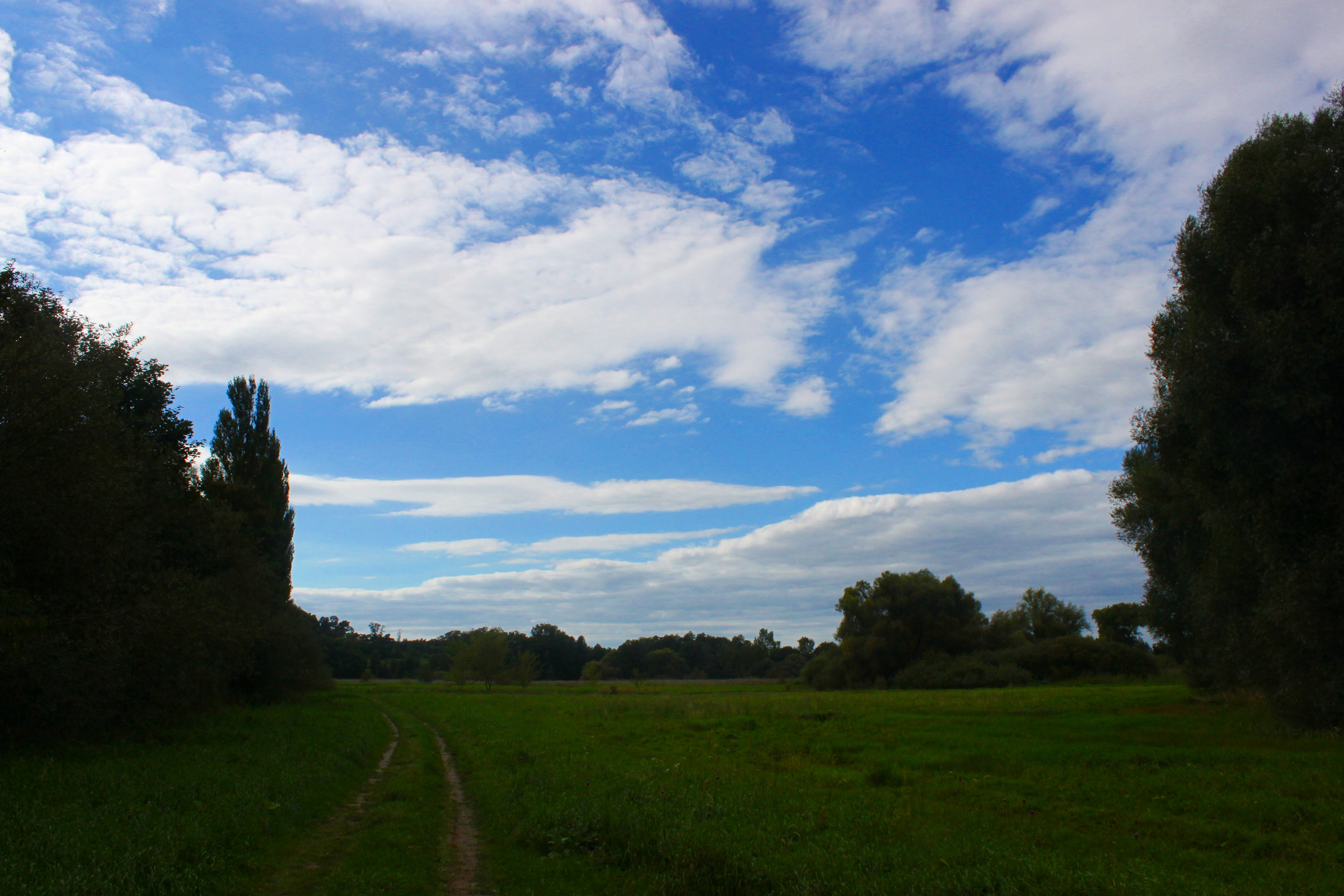 Nature reserve "Týnecké mokřiny" in Kolín District, Czech Republic. Wetlands with rare plant and bird species and "NATURA 2000" locality of toad Bombina bombina